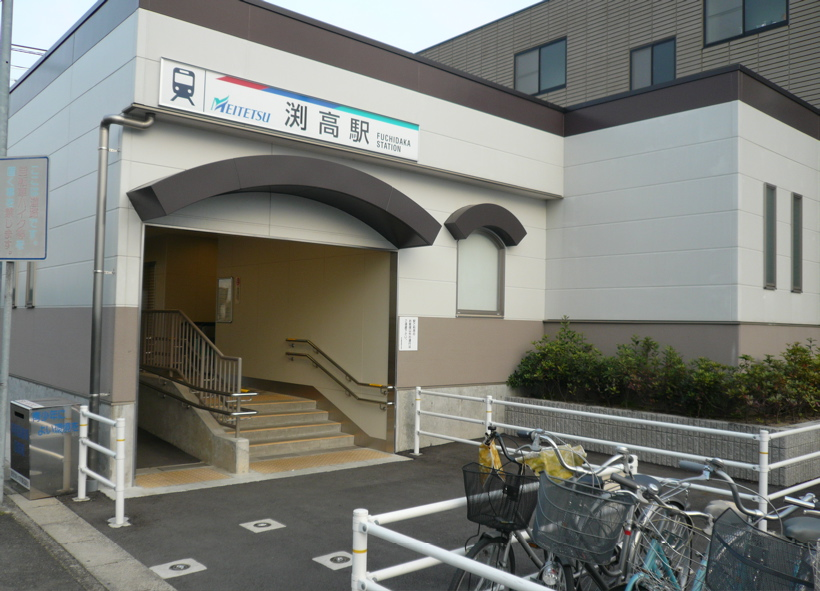 Huchidaka-station West exit.